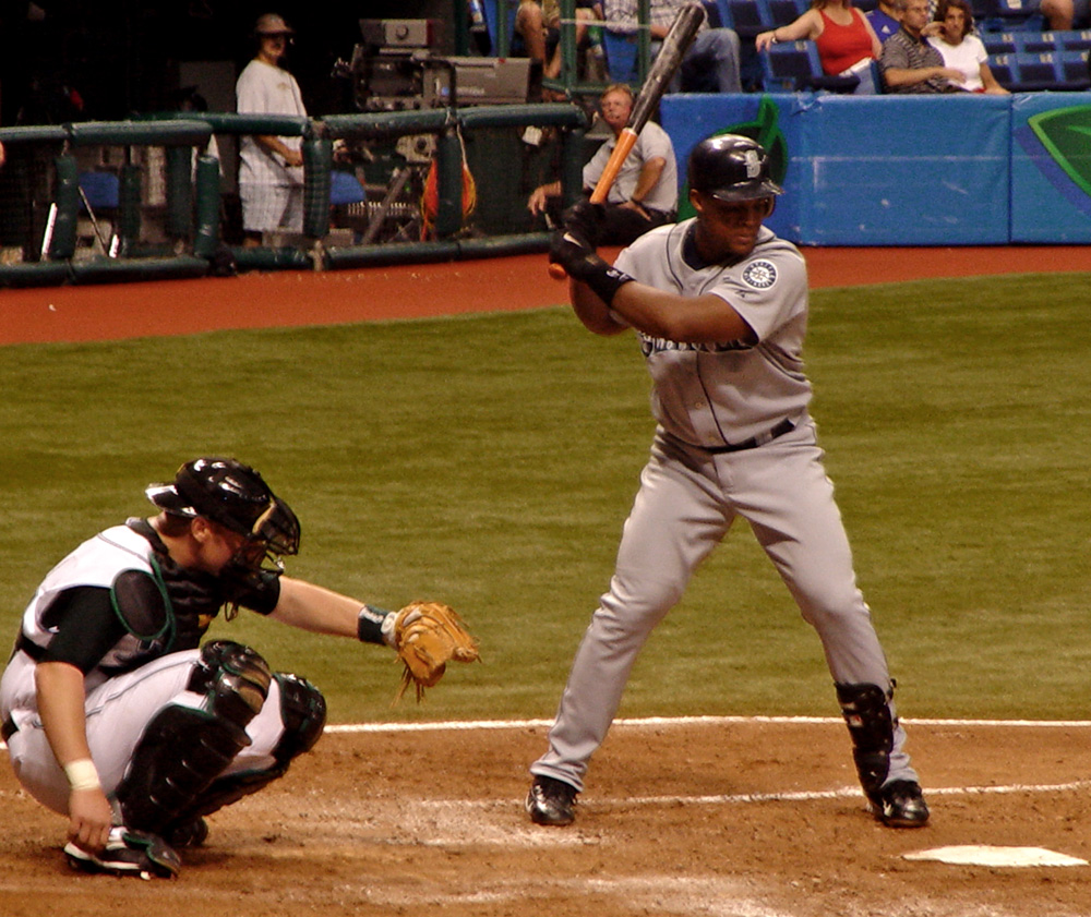 Adrian Beltre at bat against the Tampa Bay Devil Rays, May 2005. Photo by Googie Man. 22:44, 16 June 2005 . . Googie man . . 1000×841 (362 KB)